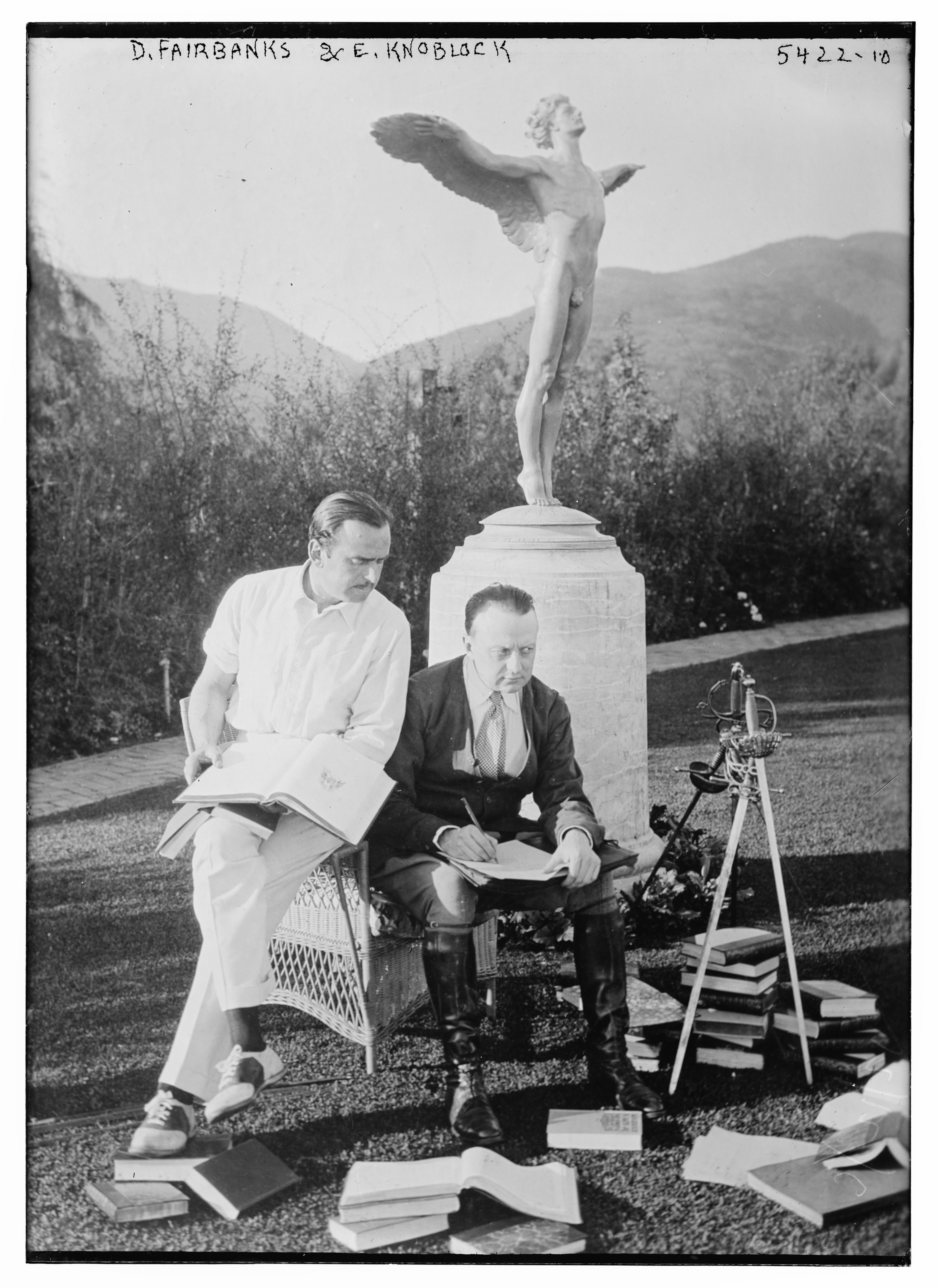 Title: D. Fairbanks & E. Knoblock Abstract/medium: 1 negative : glass ; 5 x 7 in. or smaller.